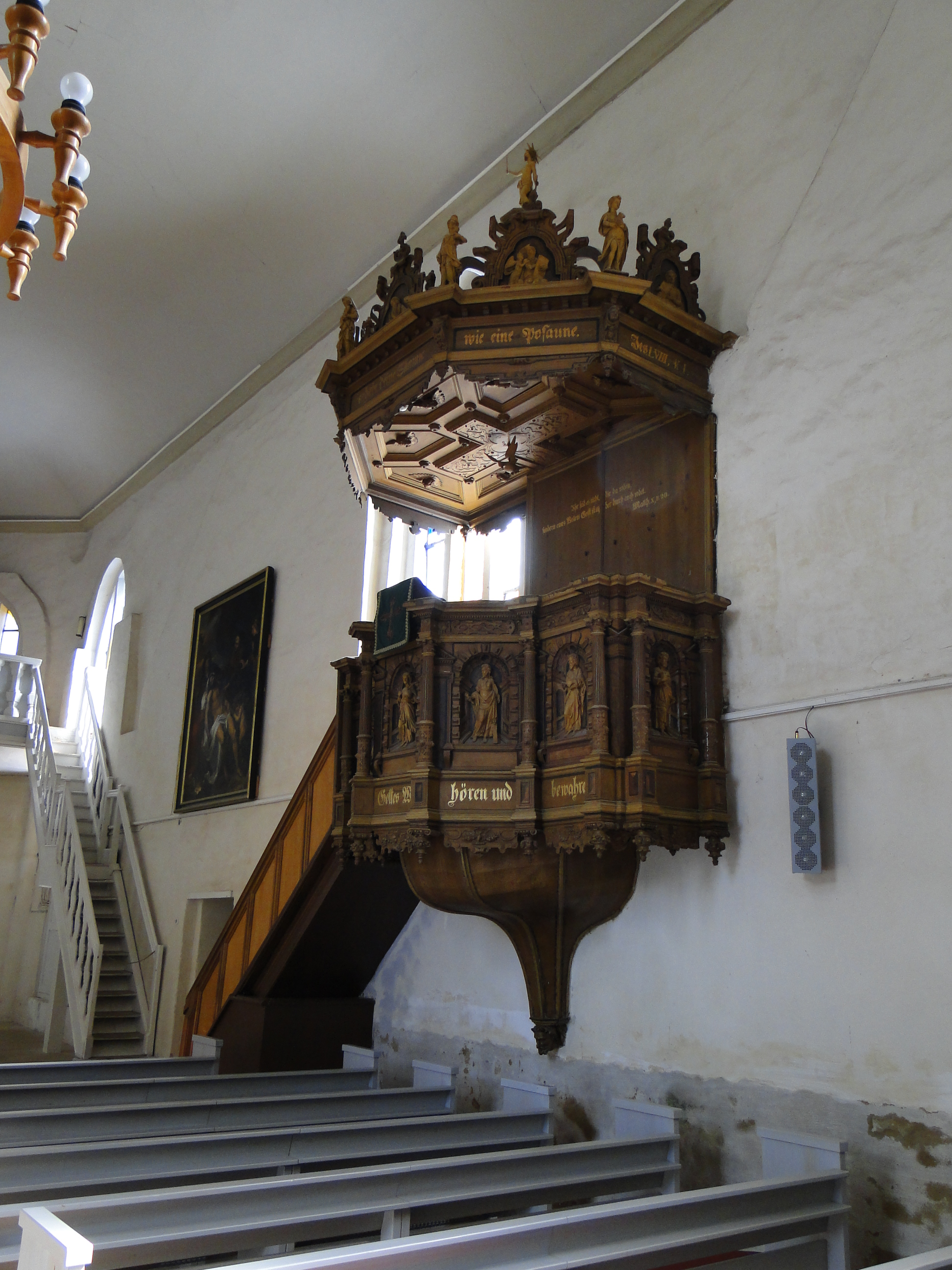 Interior of St. Mary's church in Neustadt-Glewe, district Ludwigslust-Parchim, Mecklenburg-Vorpommern, Germany